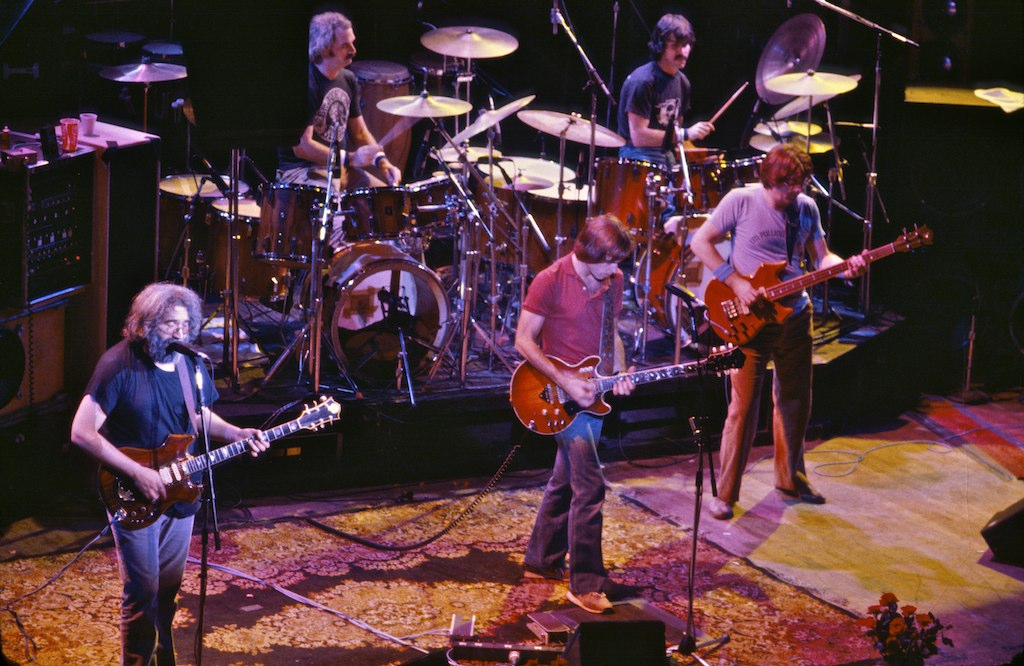 Grateful Dead at the Warfield Theatre in San Francisco, October 9, 1980.